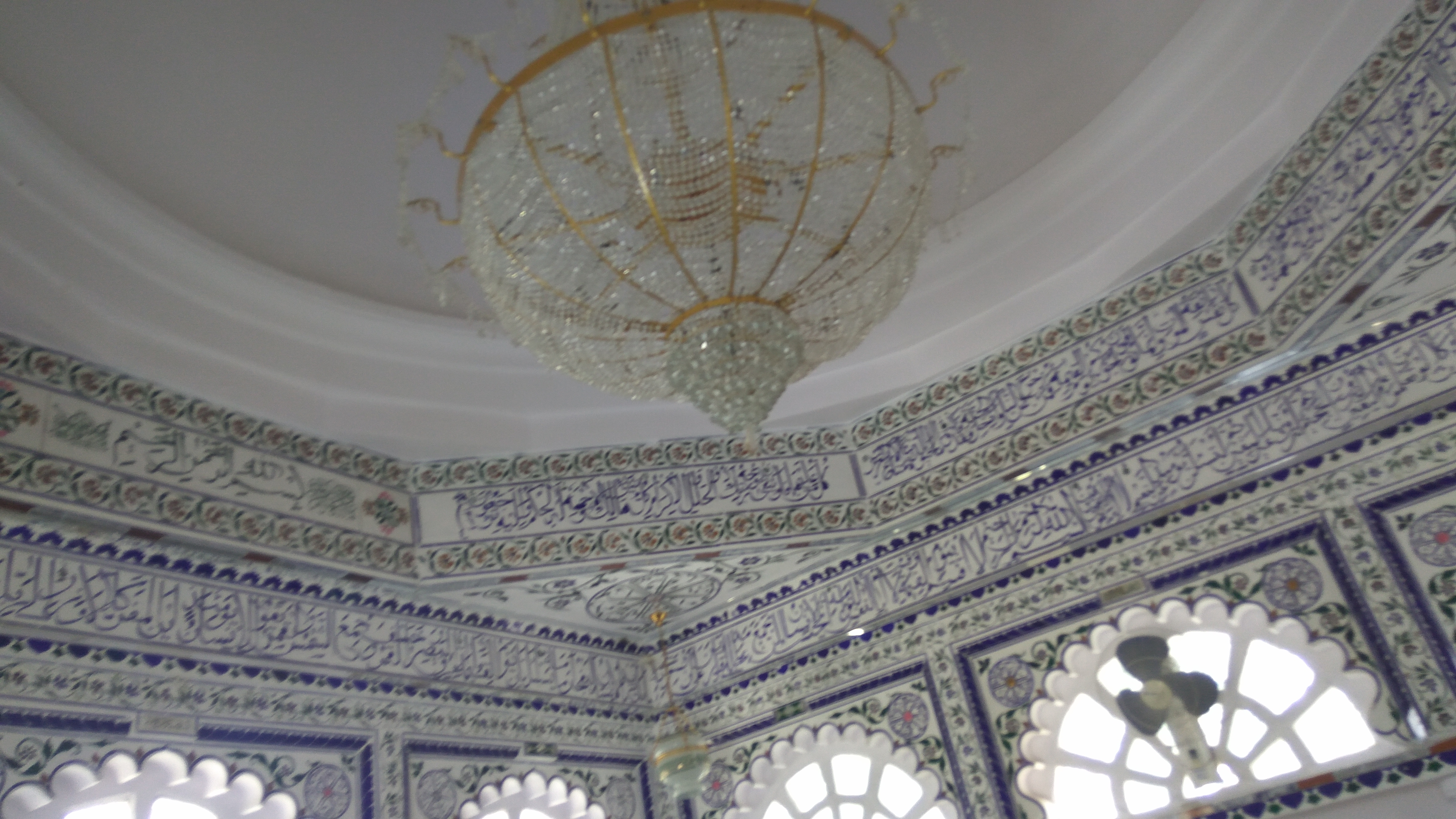 Interior decoration at mausoleum Khanji peer, Udaipur. photo taken by self